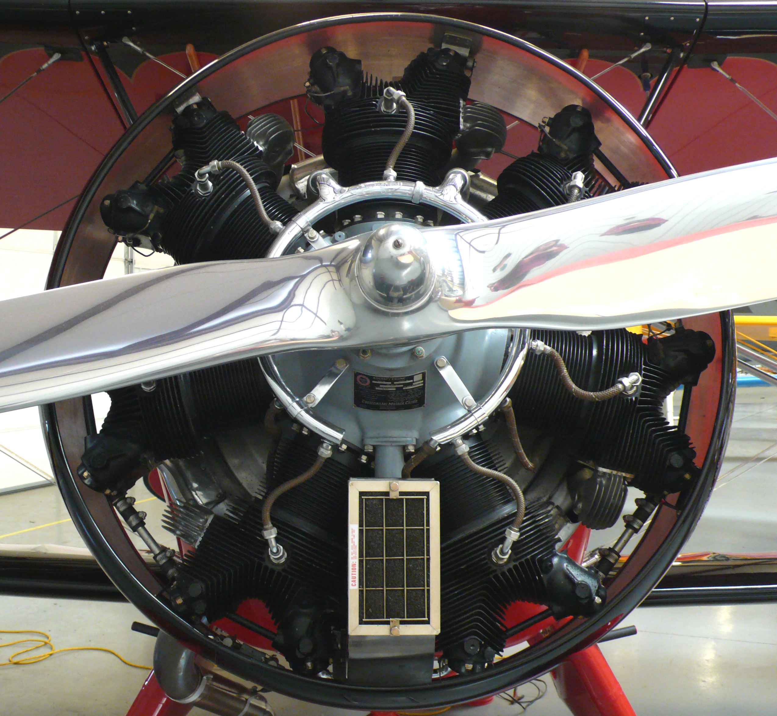 220 HP Continental radial engine in a 1932 WACO QCF2 biplane